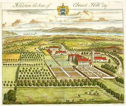 Alveston Court, drawing by Kip, published in Sir Robert Atkyns' "Ancient and Modern State of Gloucestershire", 1712.